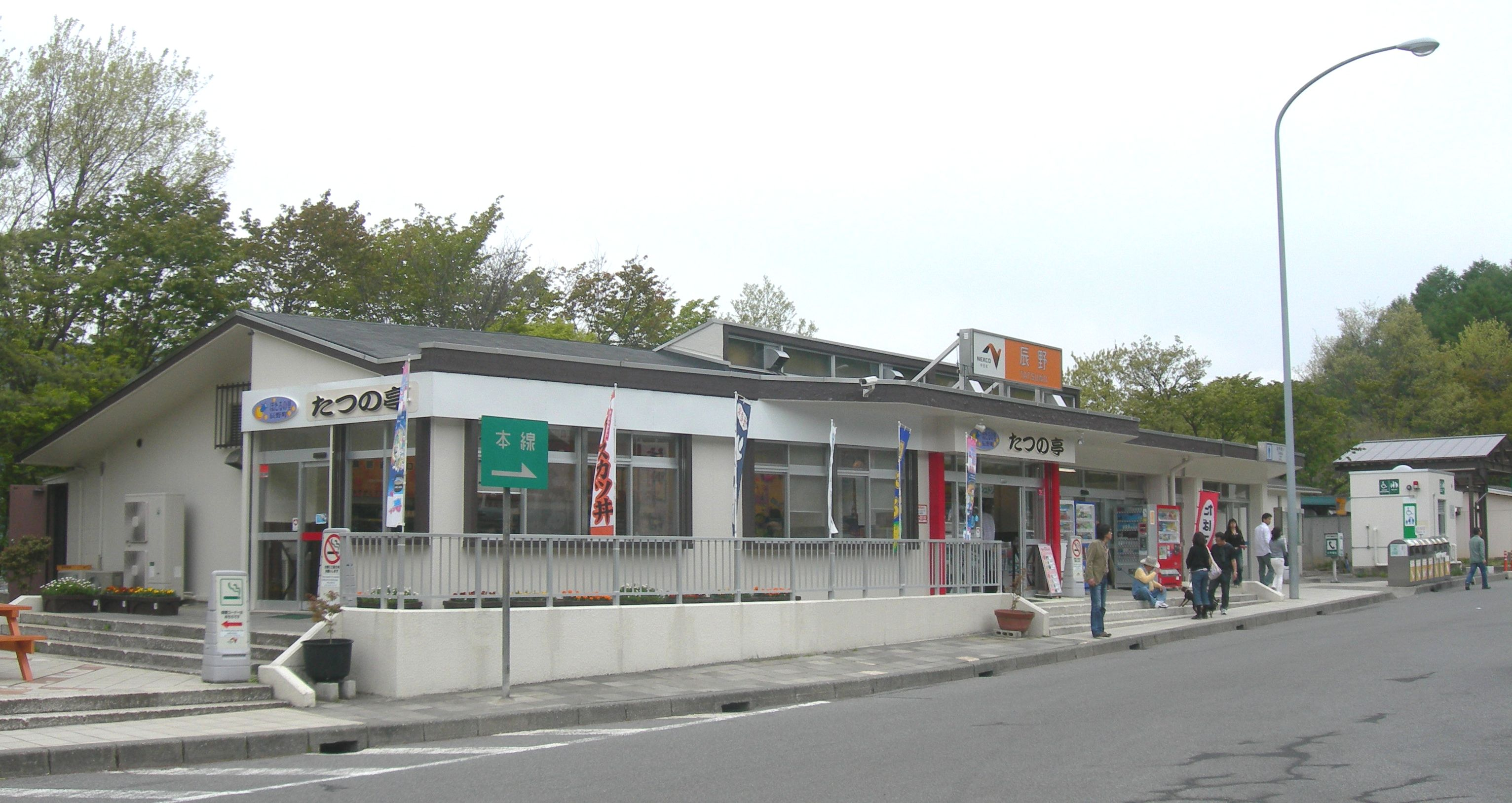 Tatsuno Parking Area on the Chuo Expressway inbound line for Tokyo